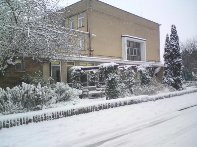 Stanmore and Canons Park Synagogue on a snowy day.